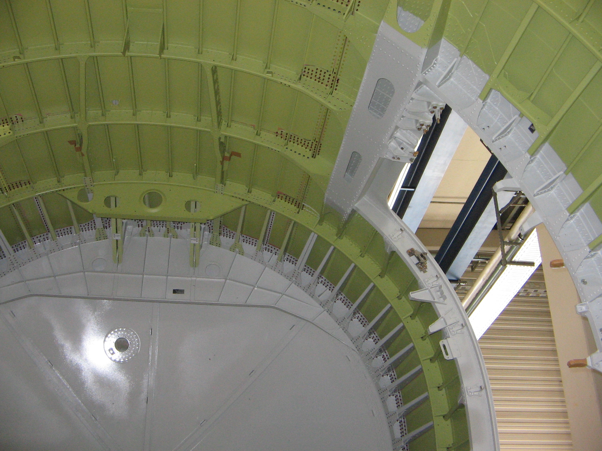 Airbus A340 rear fuselage, seen from inside. Picture taken during an open day in RUAG Germany.